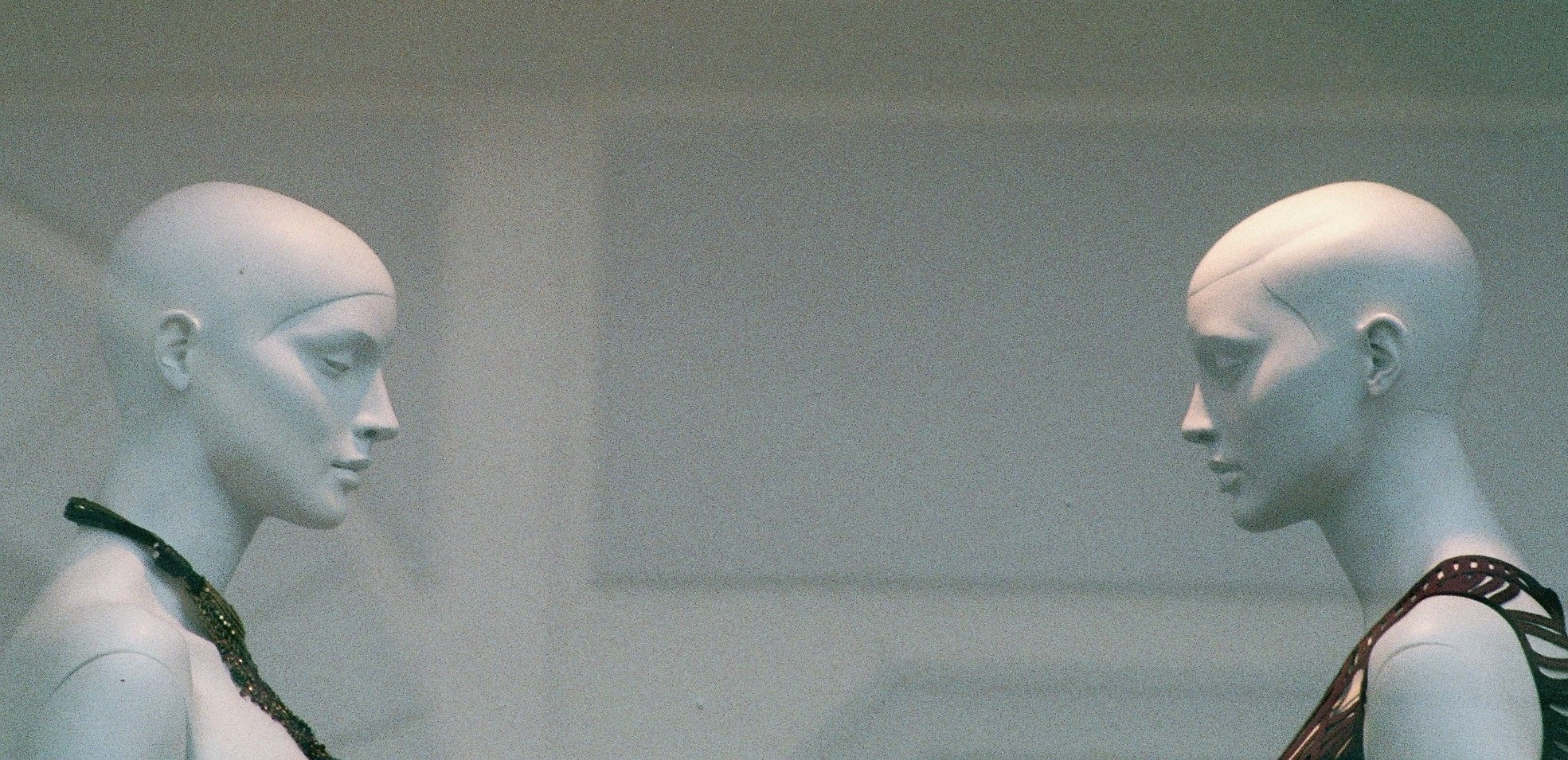 "The Sleep", analog conceptual photography, Heidelberg, Germany